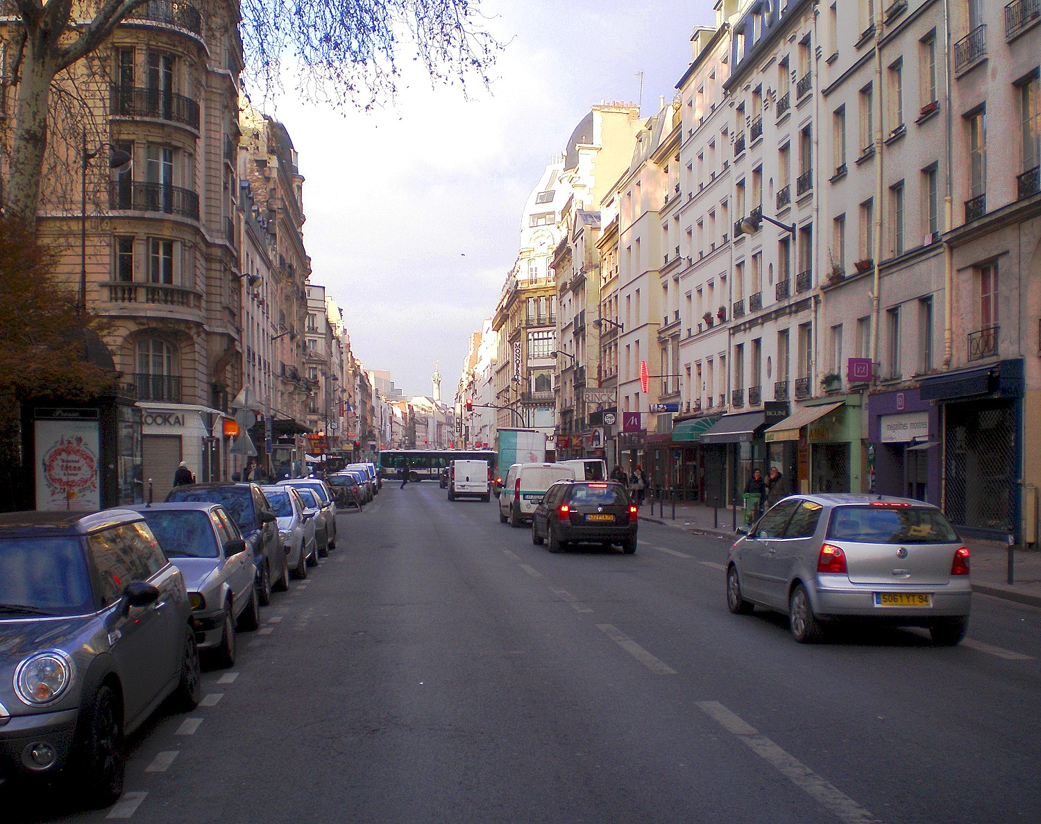 Faubourg Saint-Antoine street - Paris